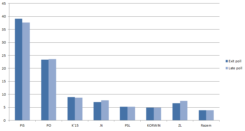 Exit poll vs late poll sources: exit poll: late poll